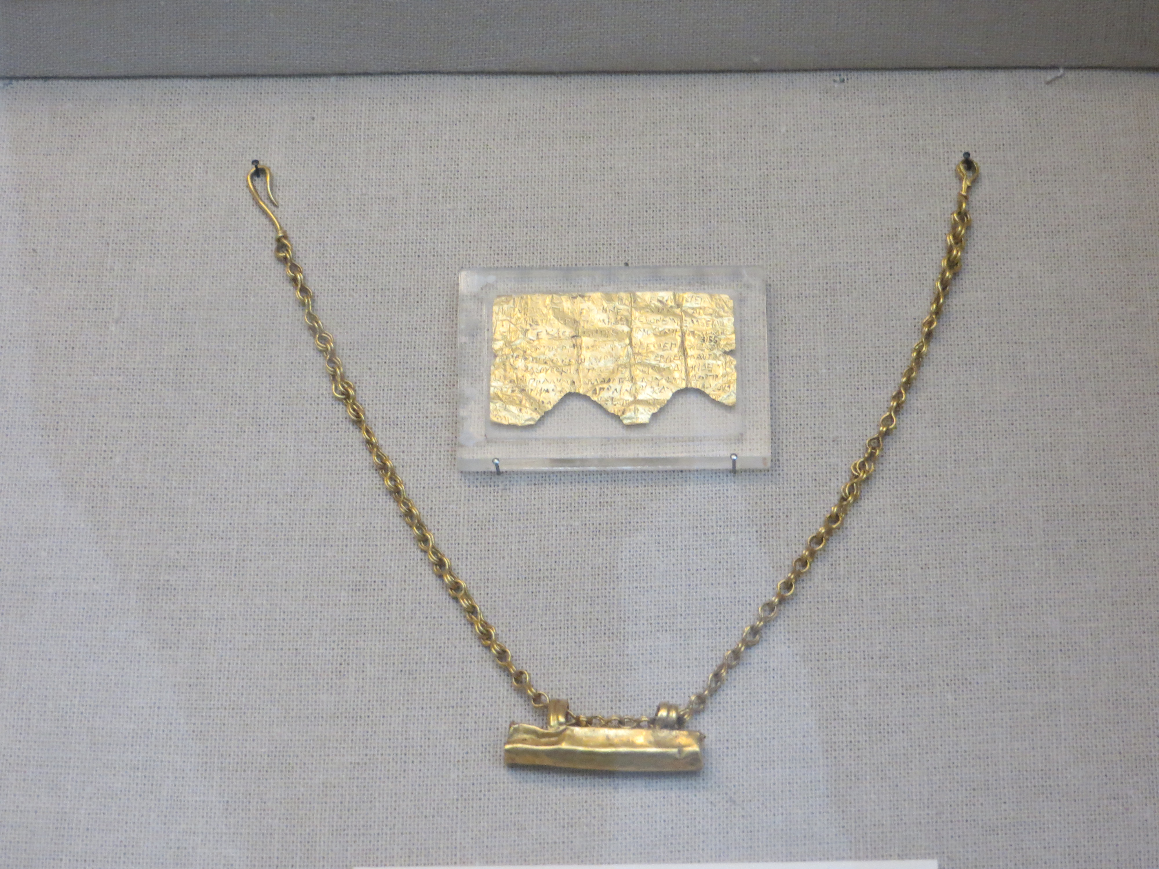 Gold Orphic Tablet with Case in the British Museum. Gold tablet with an Orphic inscription and the pendant case that contained it. The inscription warns the soul not to drink from a particular spring in Hades, but to seek one by the Lake of Memory, where, after drinking, it shall be equal with other souls. Museum number 1843,0724.3 BM